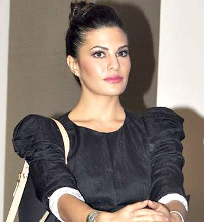 Fernandez at Vishesh Studio's Tie Up Meet 02